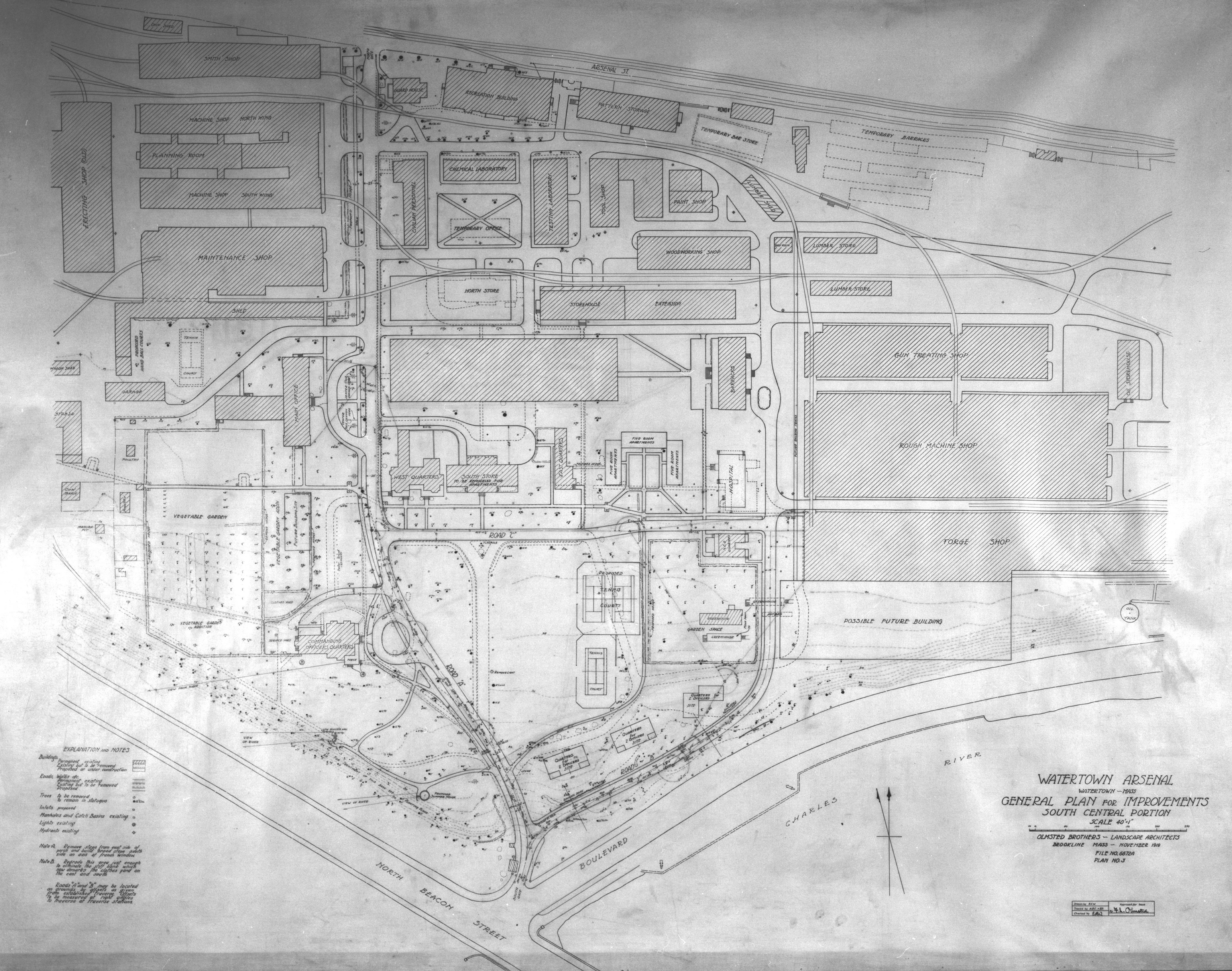 Watertown Arsenal, Watertown, Massachusetts, USA. This is a General Plan for landscaping improvements, prepared by Olmsted Brothers in 1919 for the United States Army.